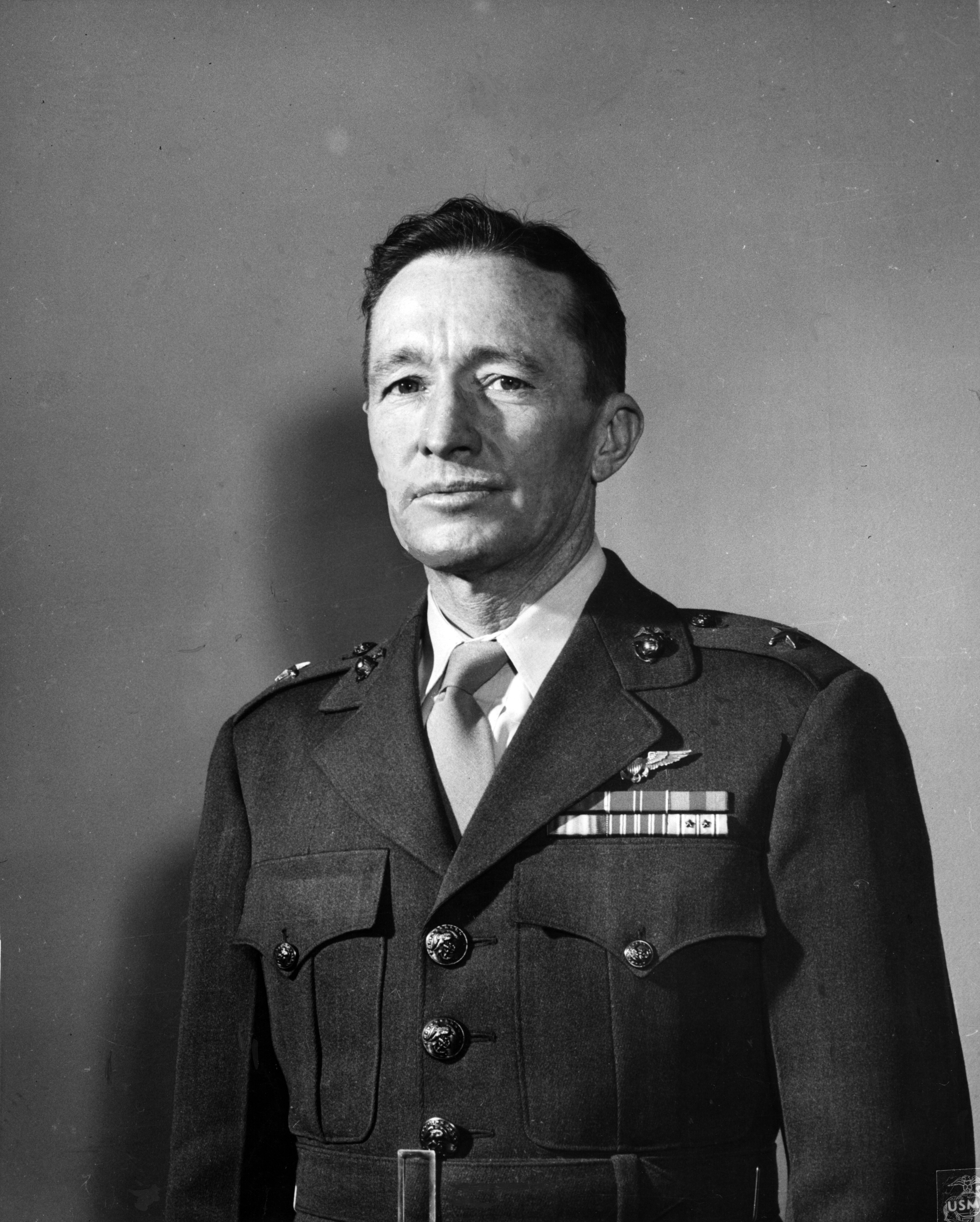 William Lake McKittrick (June 30, 1897 - March 27, 1984) was a decorated aviation officer of the United States Marine Corps with the rank of Major General. He is most noted for his service as commanding officer of the Marine Aircraft Group 24 during Bougainville Campaign and later as Air Defense Commander during the Battle of Saipan.